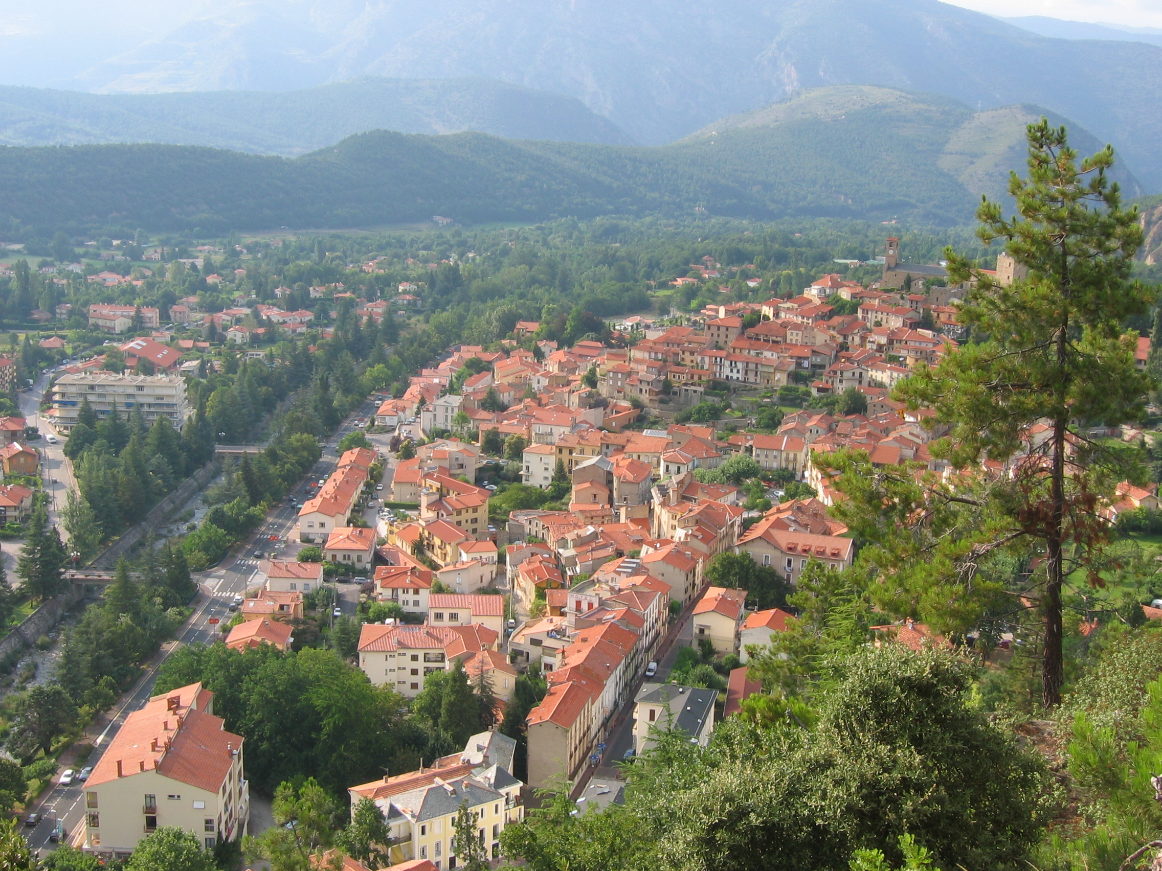 Overview of Vernet-les-Bains, Pyrenees